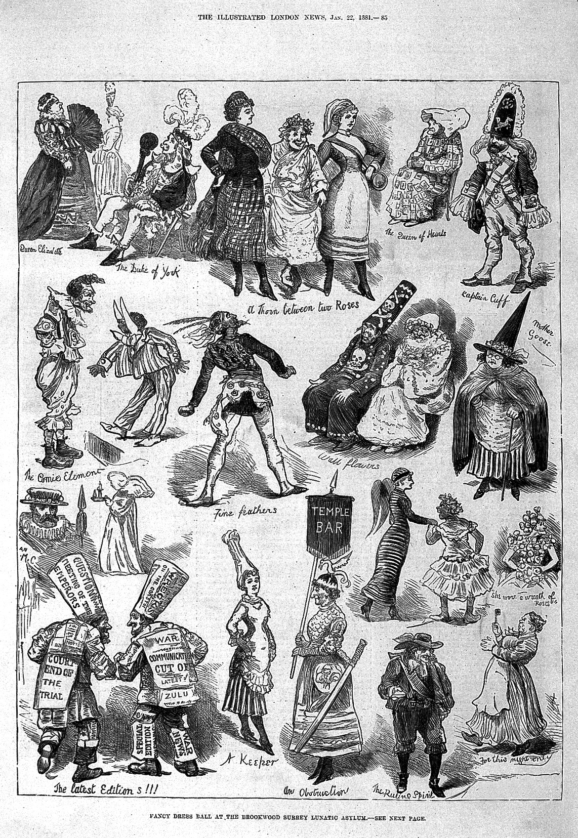 Brookwood Lunatic Asylum Fancy Dress Ball. General Collections Keywords: Institutions